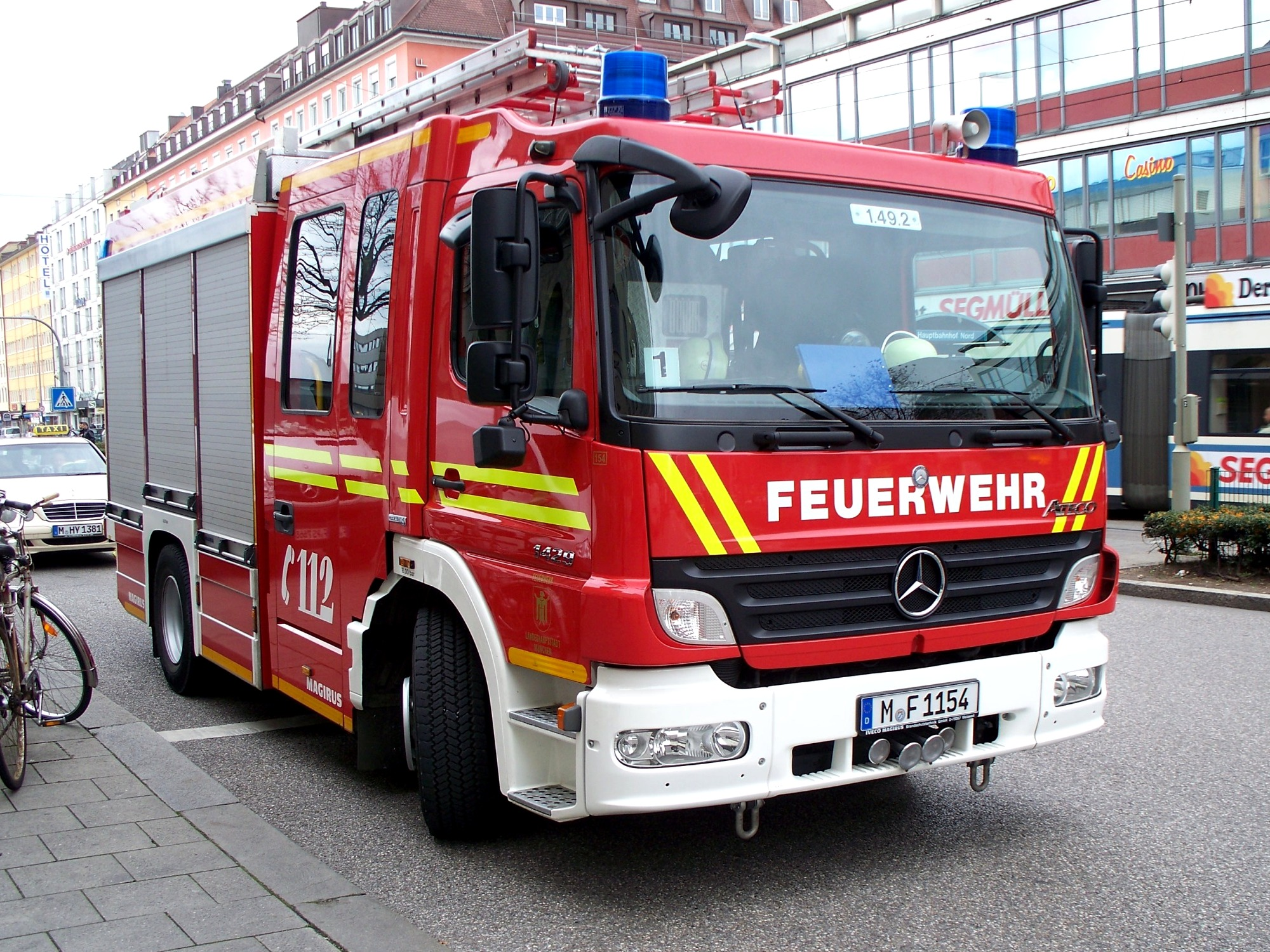 An Mercedes-Benz Atego fire engine in Munich.